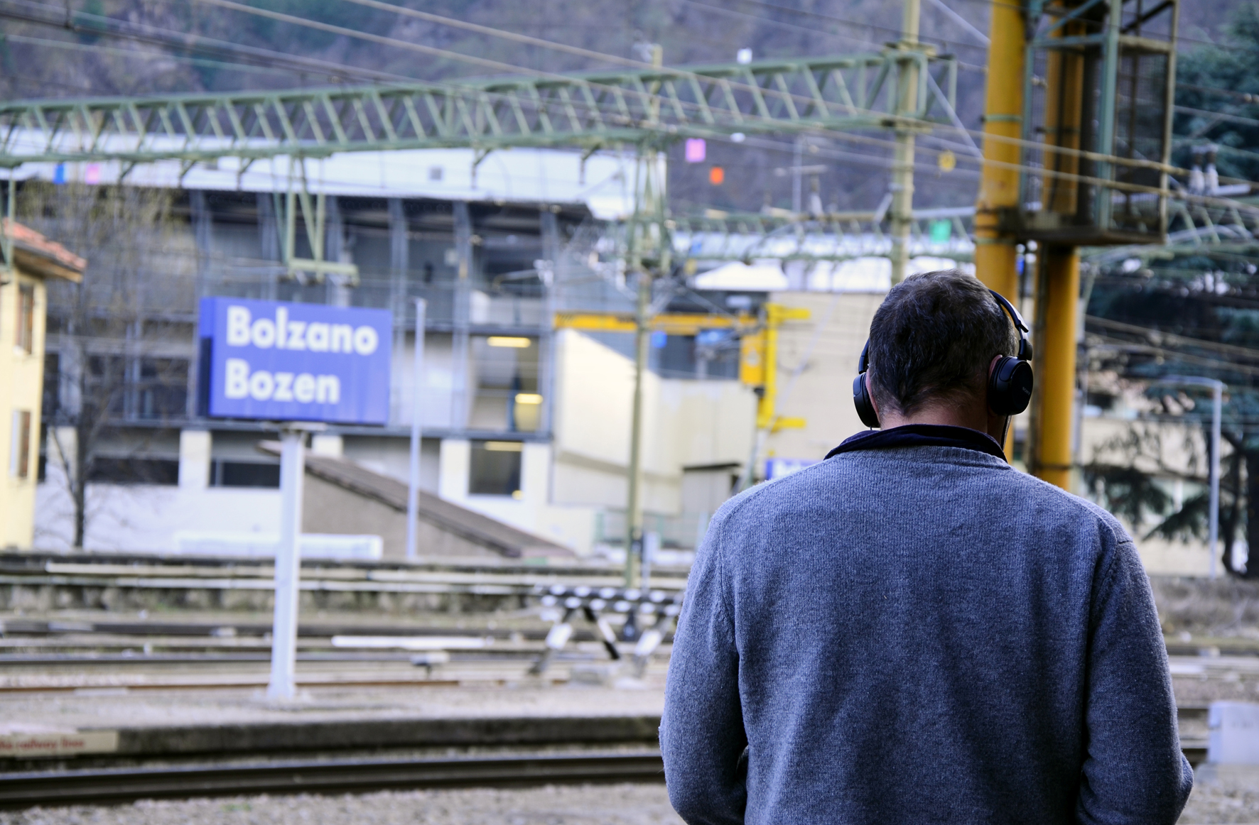 Art project